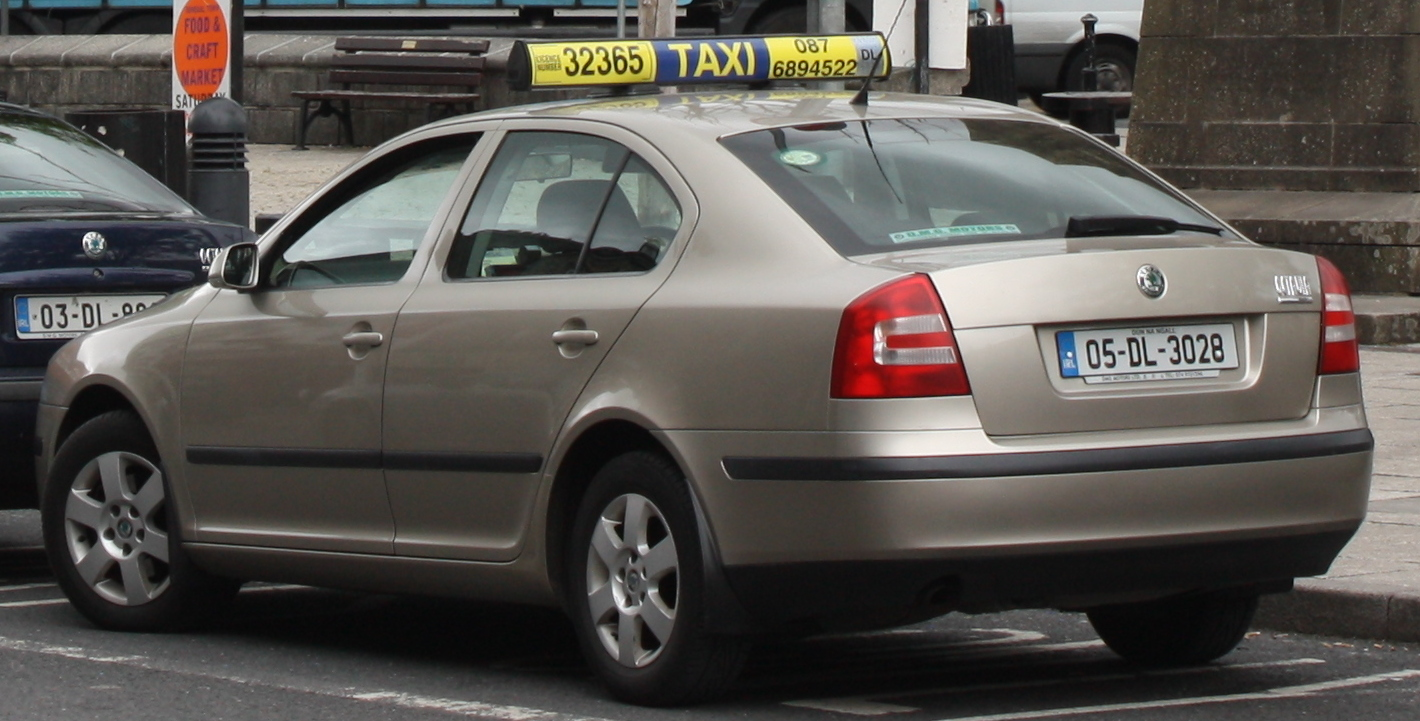 The Diamond, Donegal, County Donegal, Republic of Ireland, June 2012